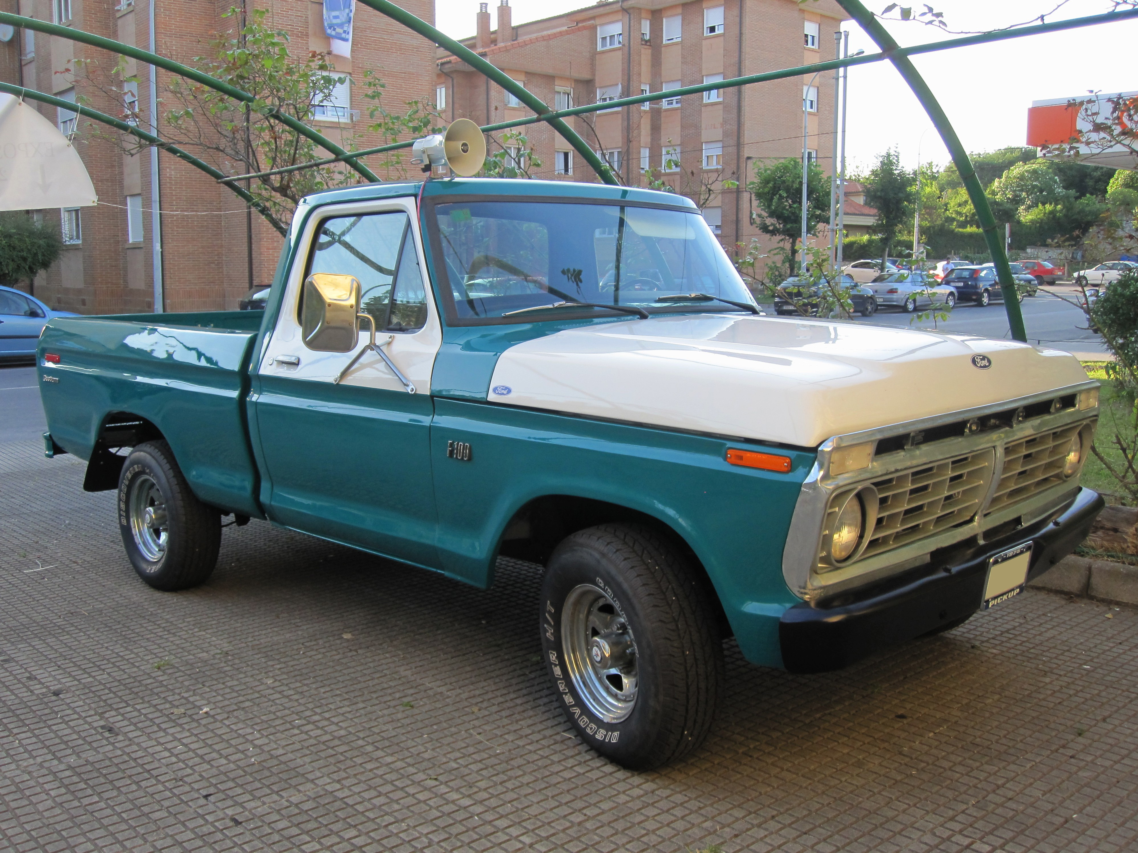 So so so so so nice... absolutely adored this... I like the way its owner kept US sized plates, not sure if that's too legal though but it looks really nice. If I'm right and saw well, this had manual transmission. It was registered as historic but the plate holders said 1976, so I'm assuming it's from that year. Seen in Llanes (Asturias).